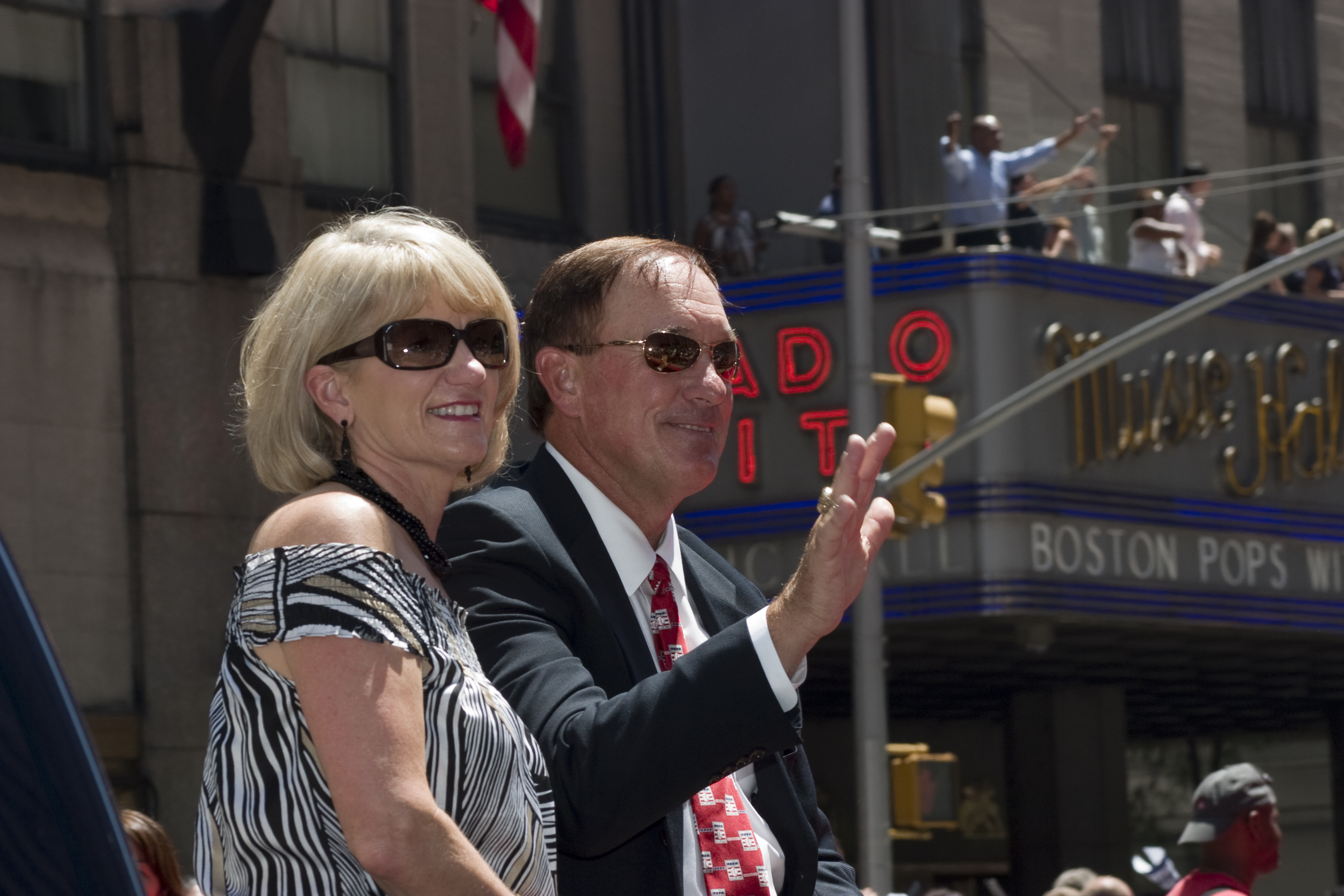 Baseball player Gary Carter. © Rubenstein, photographer Martyna Borkowski